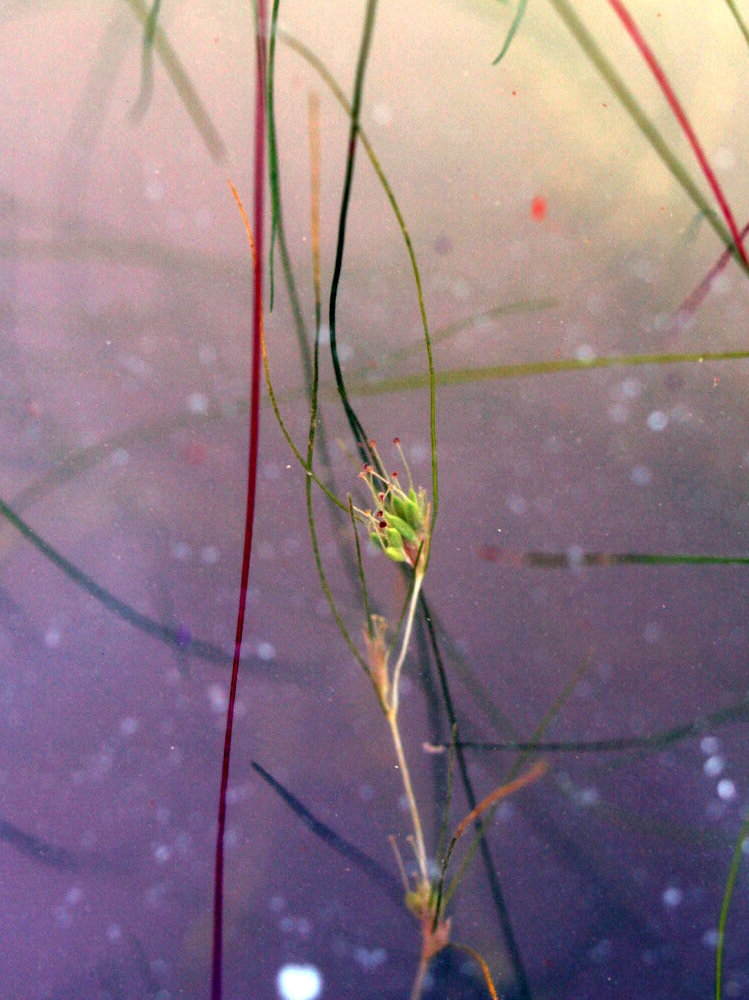 Ito, Y. (2013) Aquatic Plant Surveys in Asia, Australia, Europe, and N. America. Bunrui 13: 47-60.